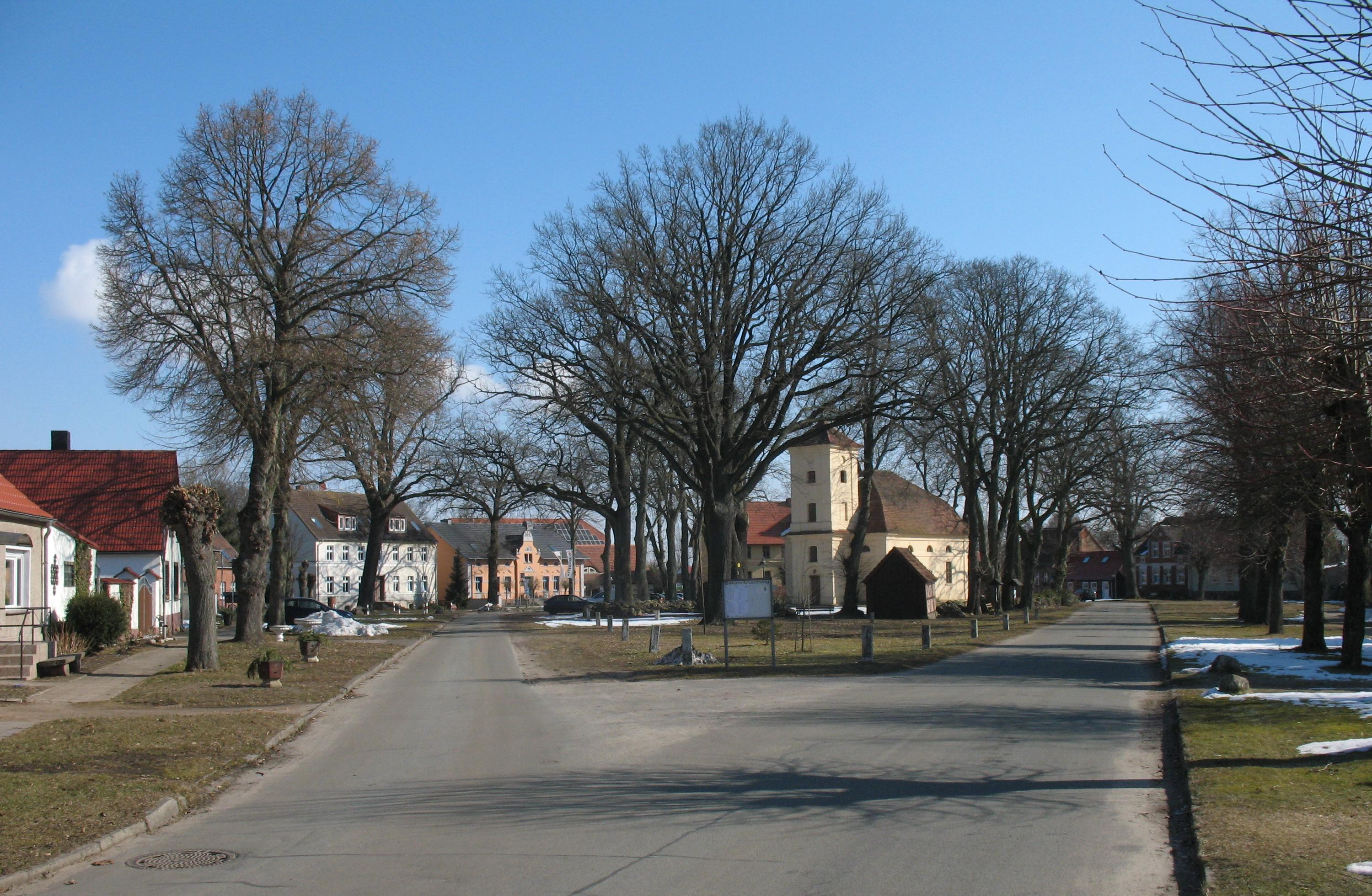 Rundling Heiligengrabe-Jabel in Brandenburg, Germany